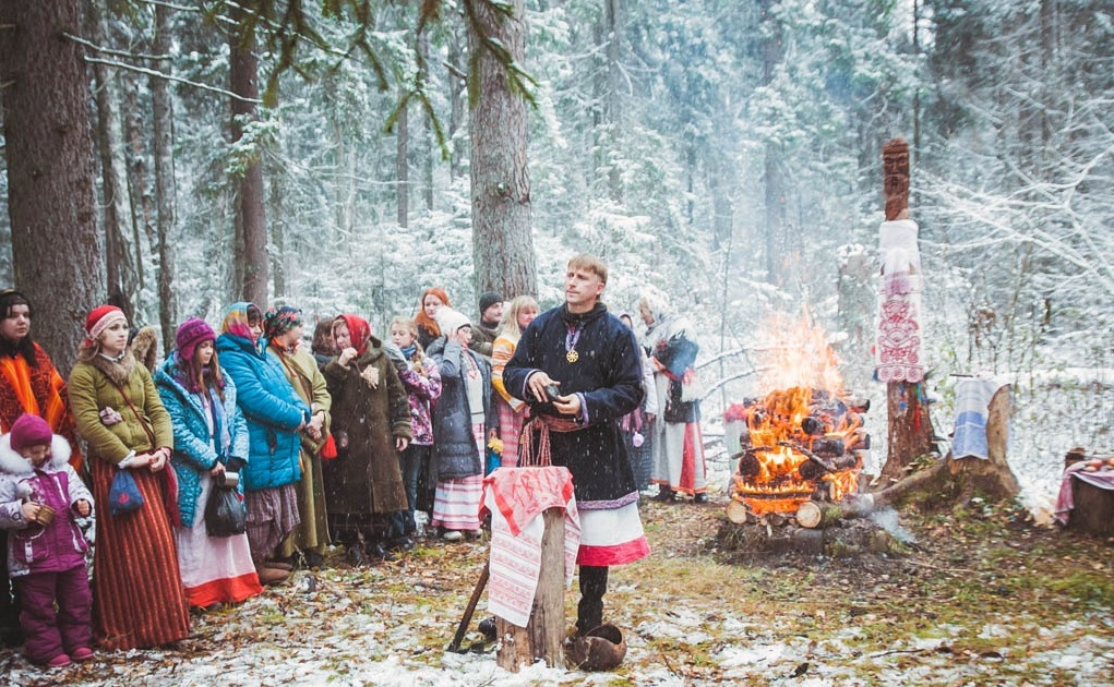 Mokosh 2016 celebrated by the Svetoary community, of the Union of Slavic Rodnover Communities